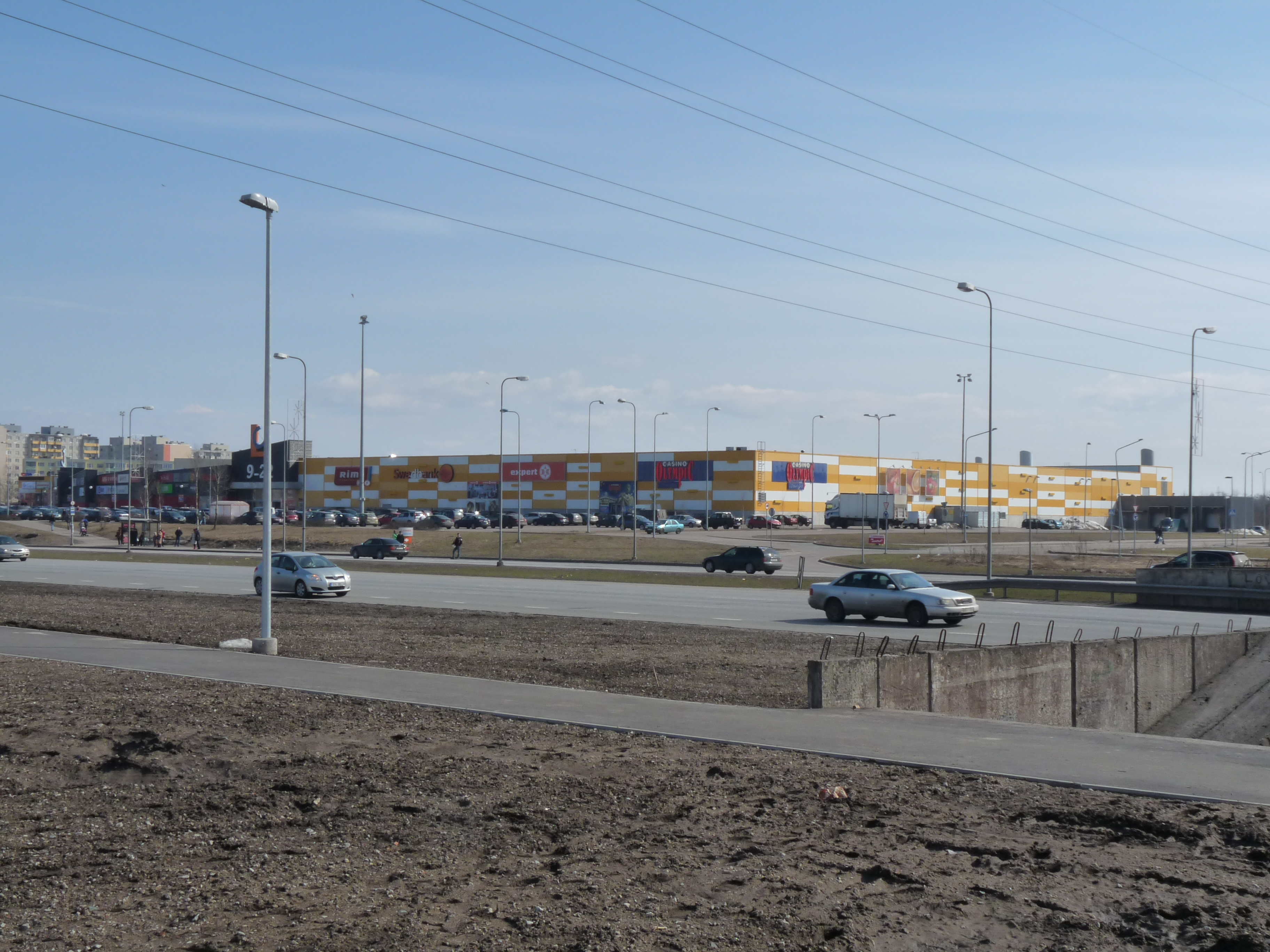 Lasnamäe Centrum seen from Tondiraba